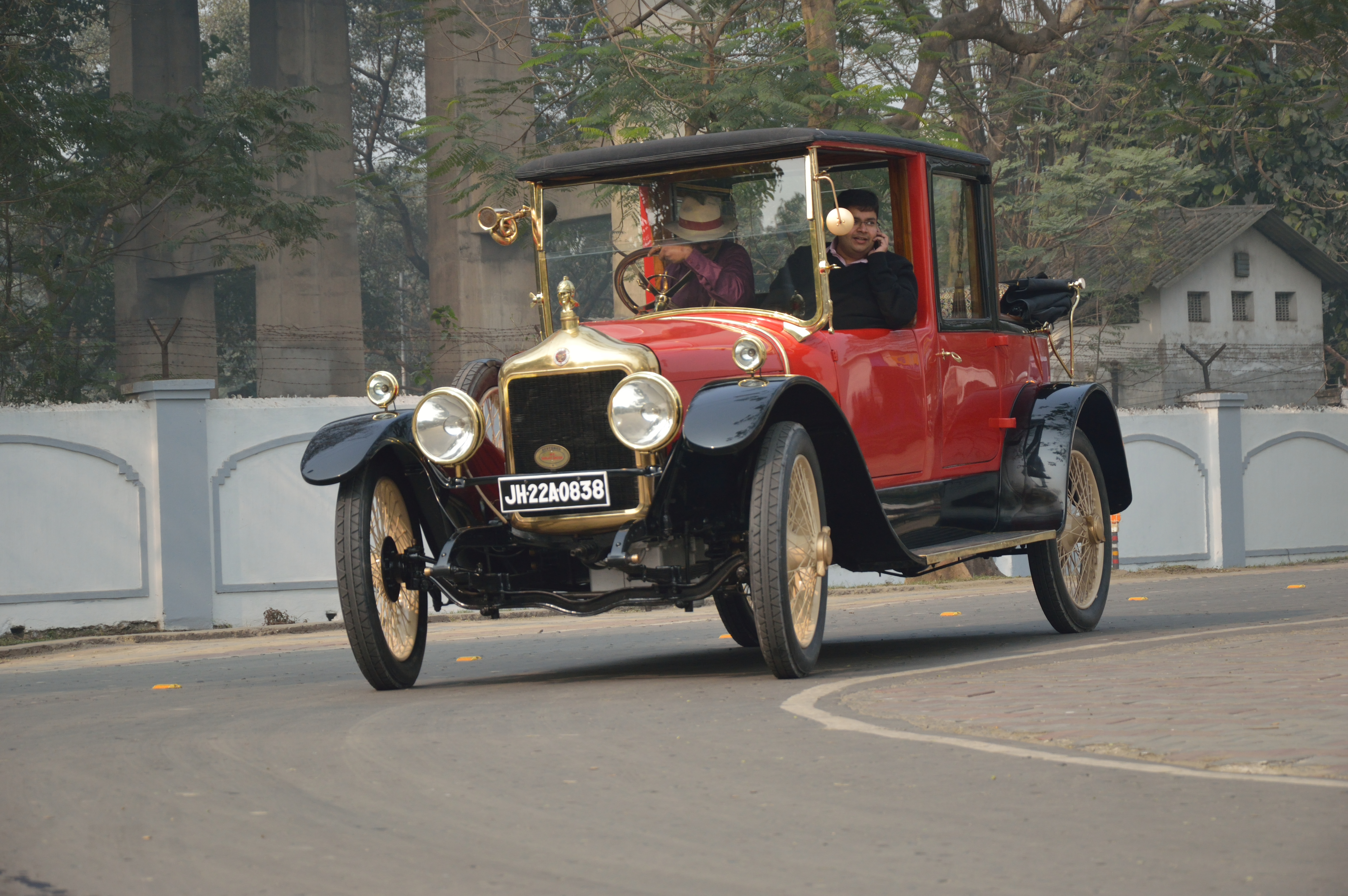 This 1919 Minerva Type NN originally belonged to the Rahas of Dhanbad.This car was exhibited and ran during ‘The Statesman Vintage & Classic Car Rally 2013’ from the Eastern Command Sports Stadium of Fort William, Kolkata to the same via: Rabindra Sadan, Esplanade, Central avenue, Bhupen Bose avenue, Shaymbazaar five points crossing, APC Roy road, AGC Bose road Park Circus seven points, Gariahat flyover, Gol park, Rabindra Sarover, SP Mukherjee road, Hazra Road, Alipore road and Strand road, the route covers 31.32 km. The rally was held at chilled morning on 13 January 2013 at the ECS Stadium, where 170 entrants were participated with cars and bikes manufactured from 1906 to 1978. This one day festival takes place on the second Sunday of every January in Kolkata since 1968 with full of period costume and cultural period pieces.